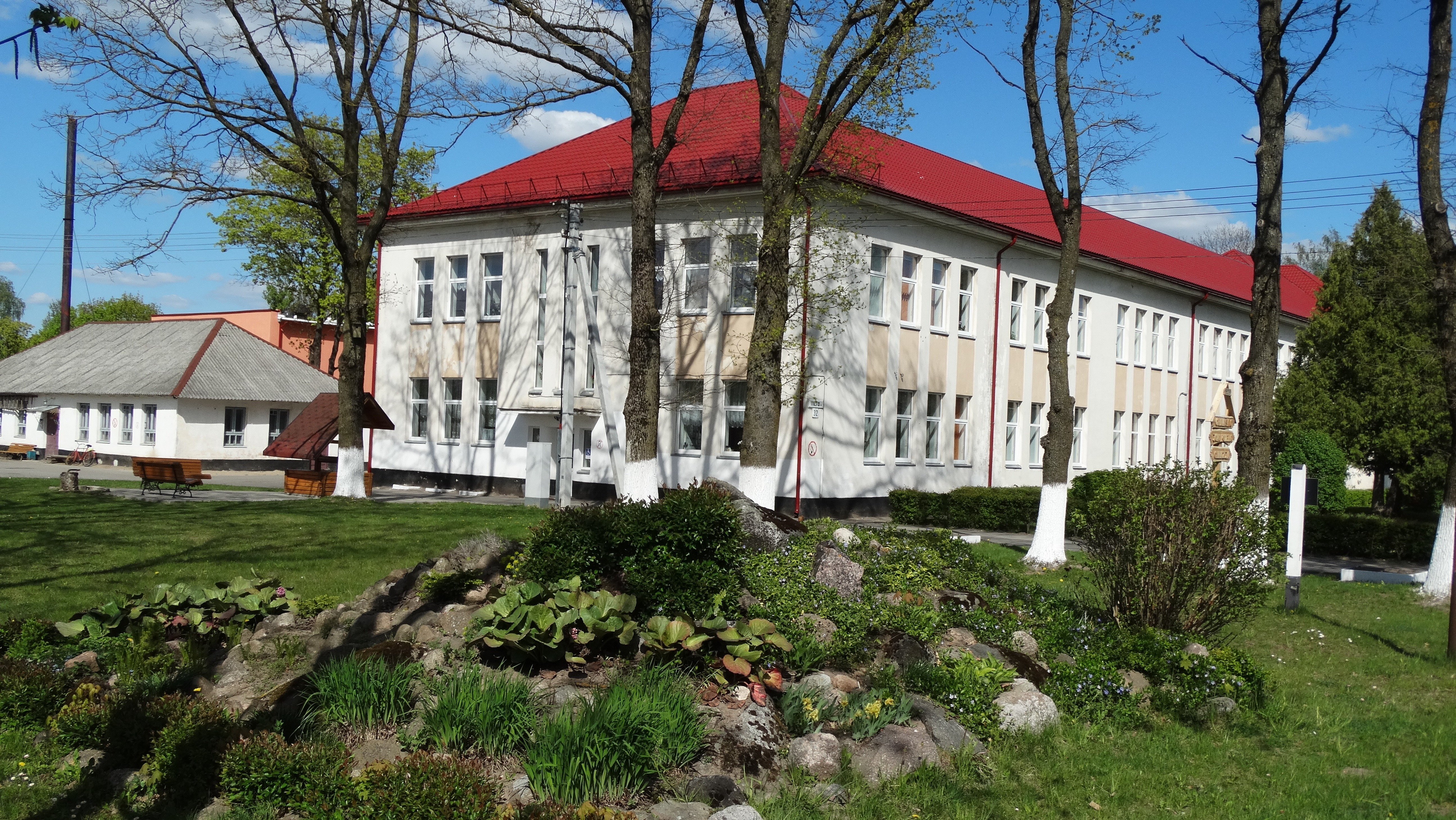 Grinkiškis, gymnasium, Radviliškis District, Lithuania